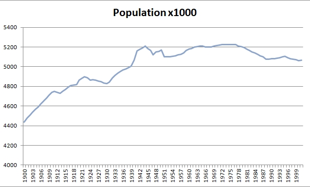 Scotland's population (1900-2001). Source: General Register Office for Scotland Birth and Mortality statisitcs from 1900